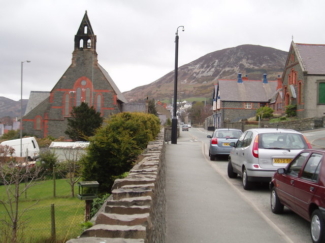 Bangor Road, Penmaenmawr Looking east